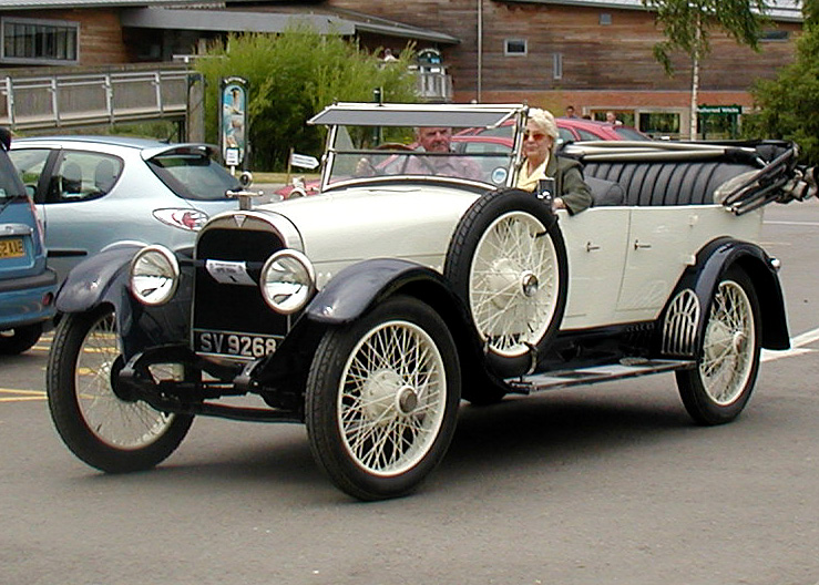 1917 Hudson Super Six Series J Phaeton at a rally in Slimbridge, Gloucestershire, England.